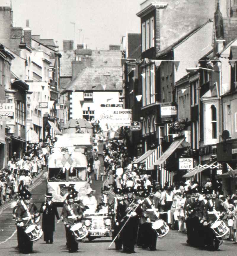 Monnow street in 1976 during the Monmouth Carnival taken from west. Monmouth Museum Identification Number: M4516